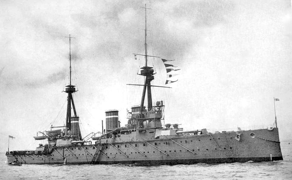 Photograph of HMS Invincible, British Battlecruiser, launched 1907